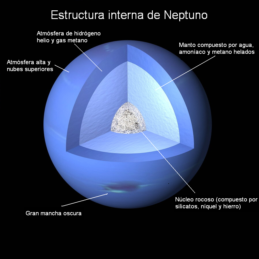 Internal structure of Neptune (Spanish version)